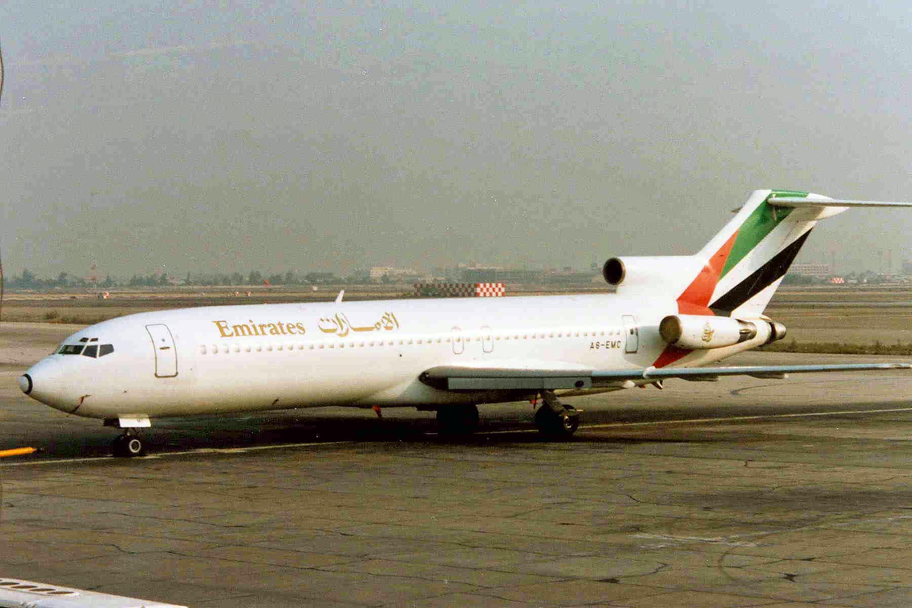 Back to the day when Emirates still use B727s...now dominated by A380s and B777s!